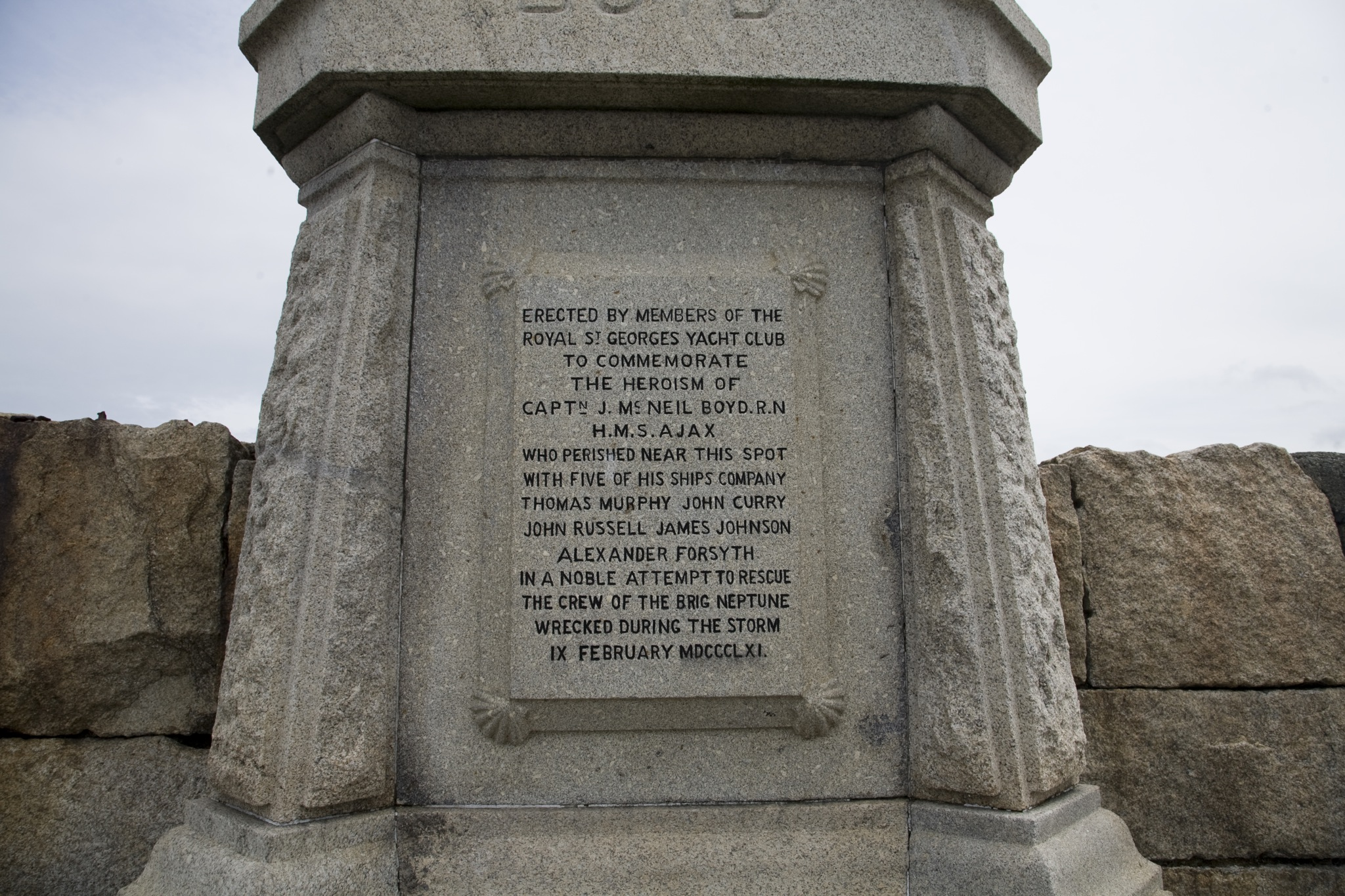 The harbour, one of the largest in the country, and base for a major car ferry route to the United Kingdom, is notable for its two granite piers. The East Pier is particularly popular with walkers, and is featured in the 1996 movie Michael Collins, where Liam Neeson (as Collins) and two of his co-stars are seen walking along a sea-side promenade, which is, indeed, the Dún Laoghaire East Pier. A band is seen playing on a bandstand in this movie scene, and this is the actual bandstand on the East Pier. A lighthouse is located at the end of the East Pier. Other features of the town include the National Maritime Museum of Ireland, and a Martello tower in nearby Sandycove known as the James Joyce Tower. It took 42 years to construct the harbour — from 1817 to 1859.